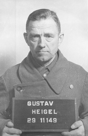 Gustav Heigel was SS-Hauptscharführer in the concentration camp of Buchenwald. In the Buchenwald Camp Trial (part of the Dachau Trials) he was sentenced to death by hanging (later modified to lifetime imprisonment).